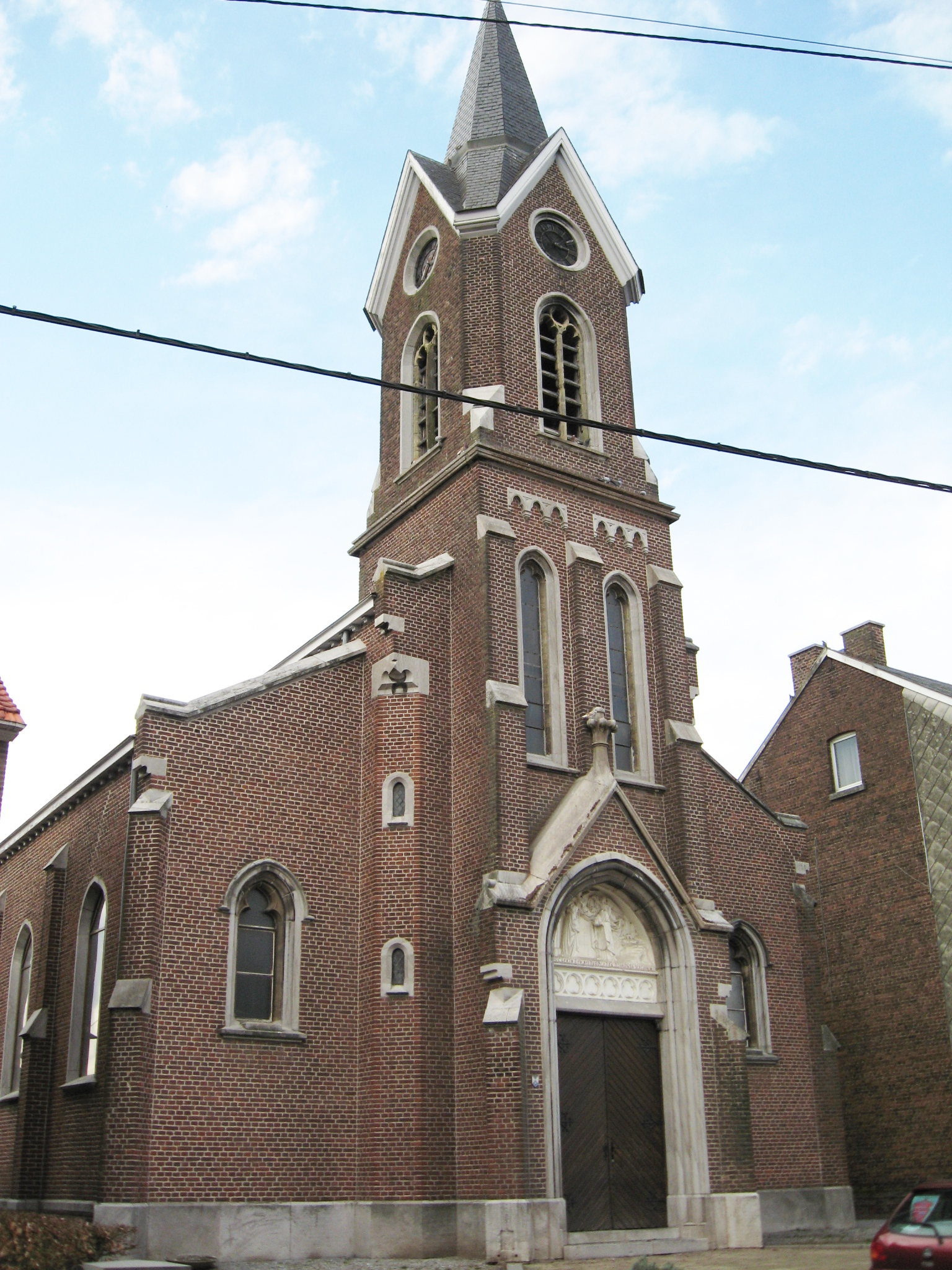 Church of Saint Denis in Grand-Axhe, Waremme, Liège, Belgique